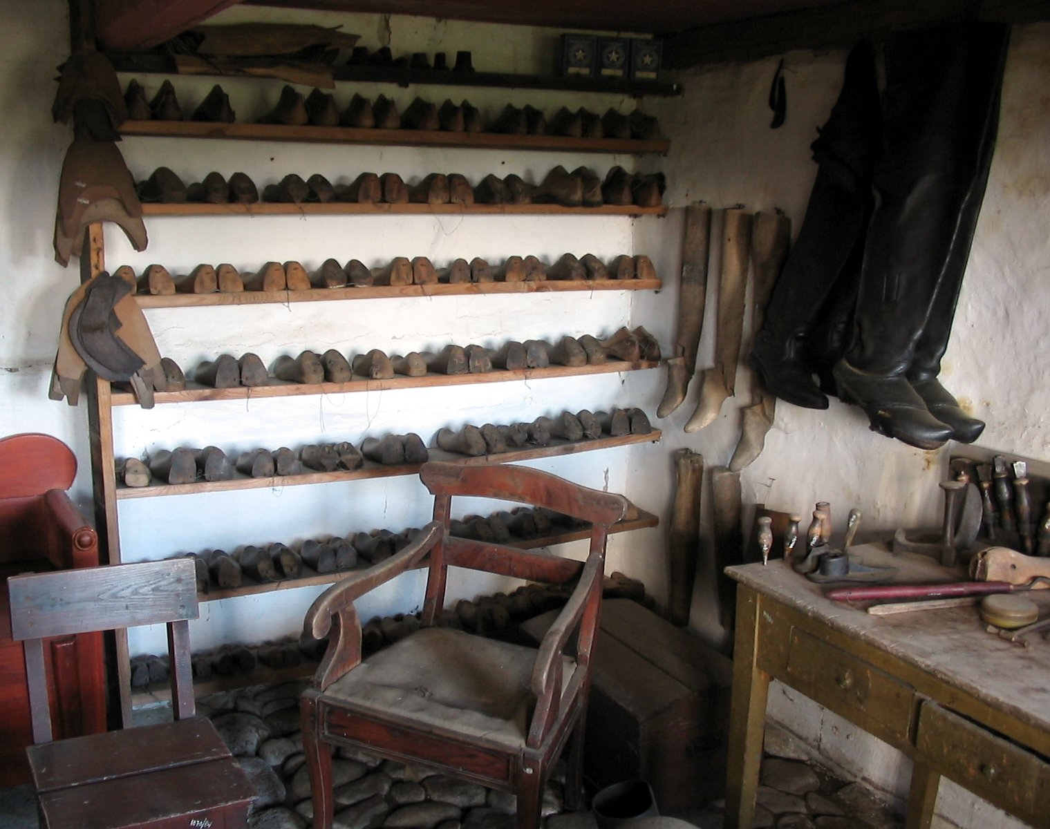 a shoemaker's workshop - open air museum Hjerl Hede in Denmark